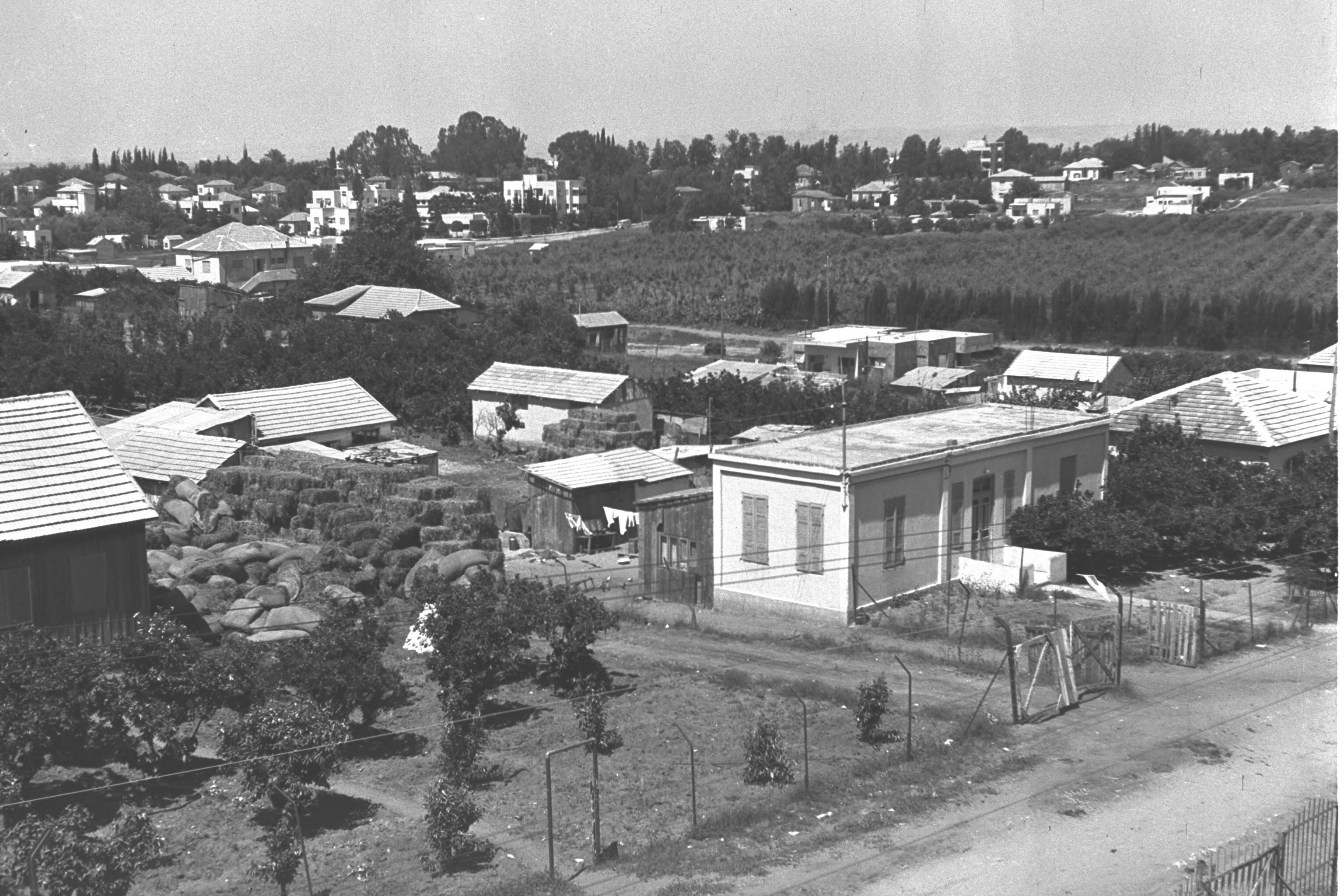 VIEW OF PETAH TIKVA. פתח תקוה.